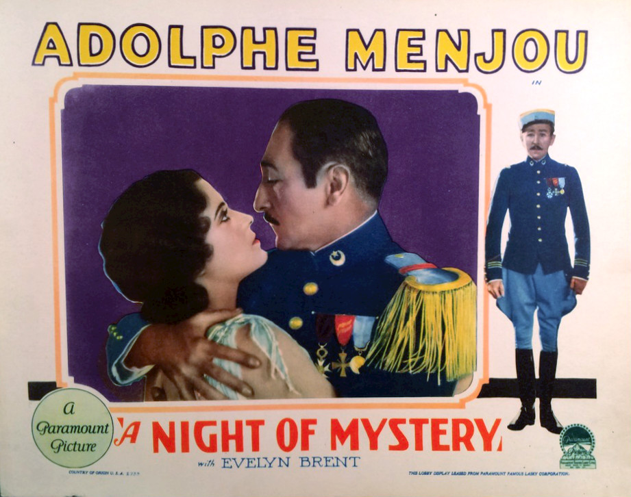 Lobby card for the American drama film A Night of Mystery (1928). There are no copyright marks on the card. At lower left is Country of origin and production USA. At lower right is This lobby display leased from Paramount Famous Lasky Corporation.